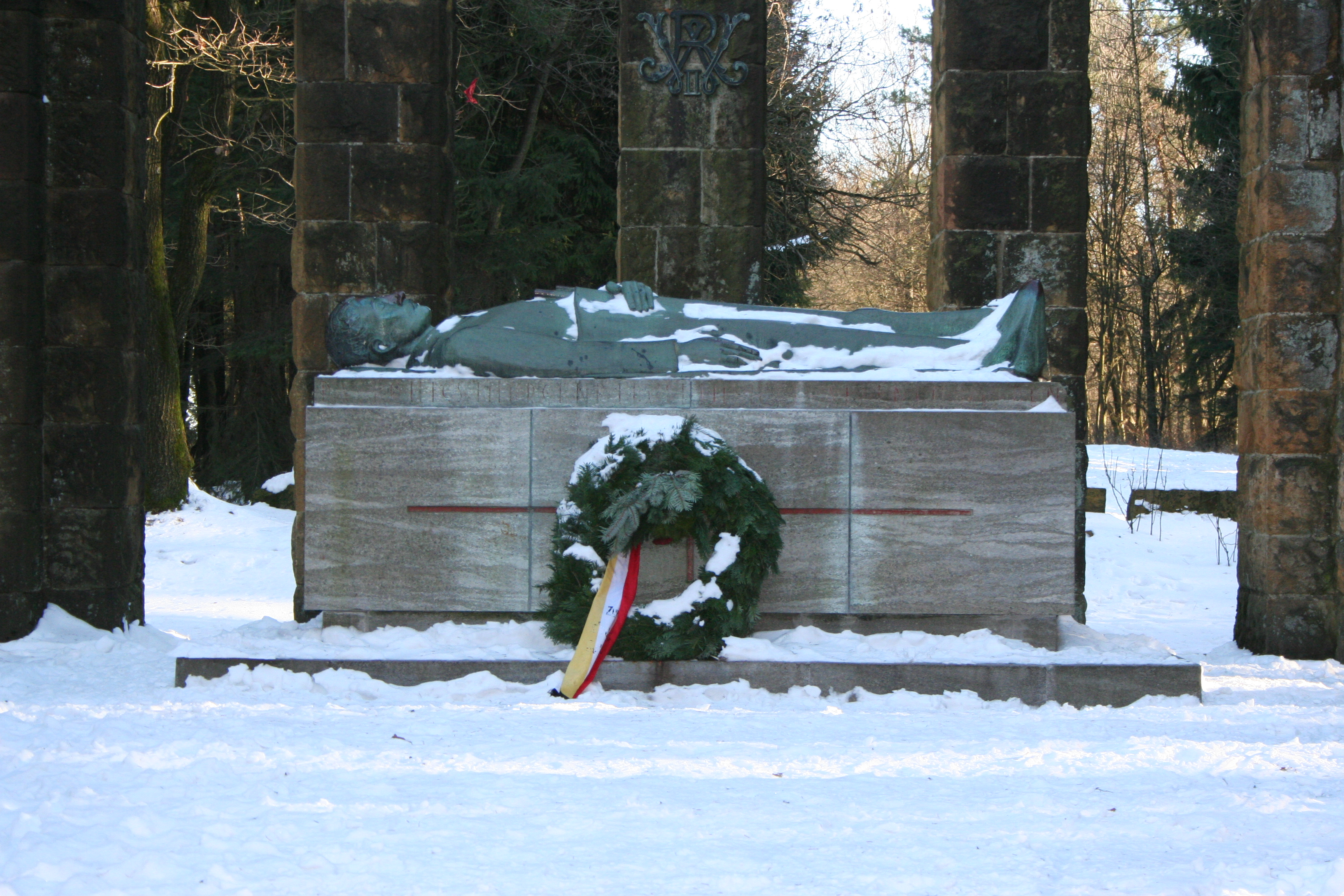 Soldiers' monument on the Tönsberg in Oerlinghausen (NRW, Germany). The monument was build in 1930 and is dedicated to the memory of the fallen soldiers of World War One.